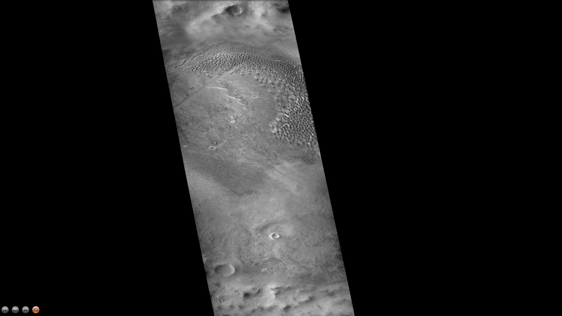 Hussey Crater showing dunes, as seen by ctx